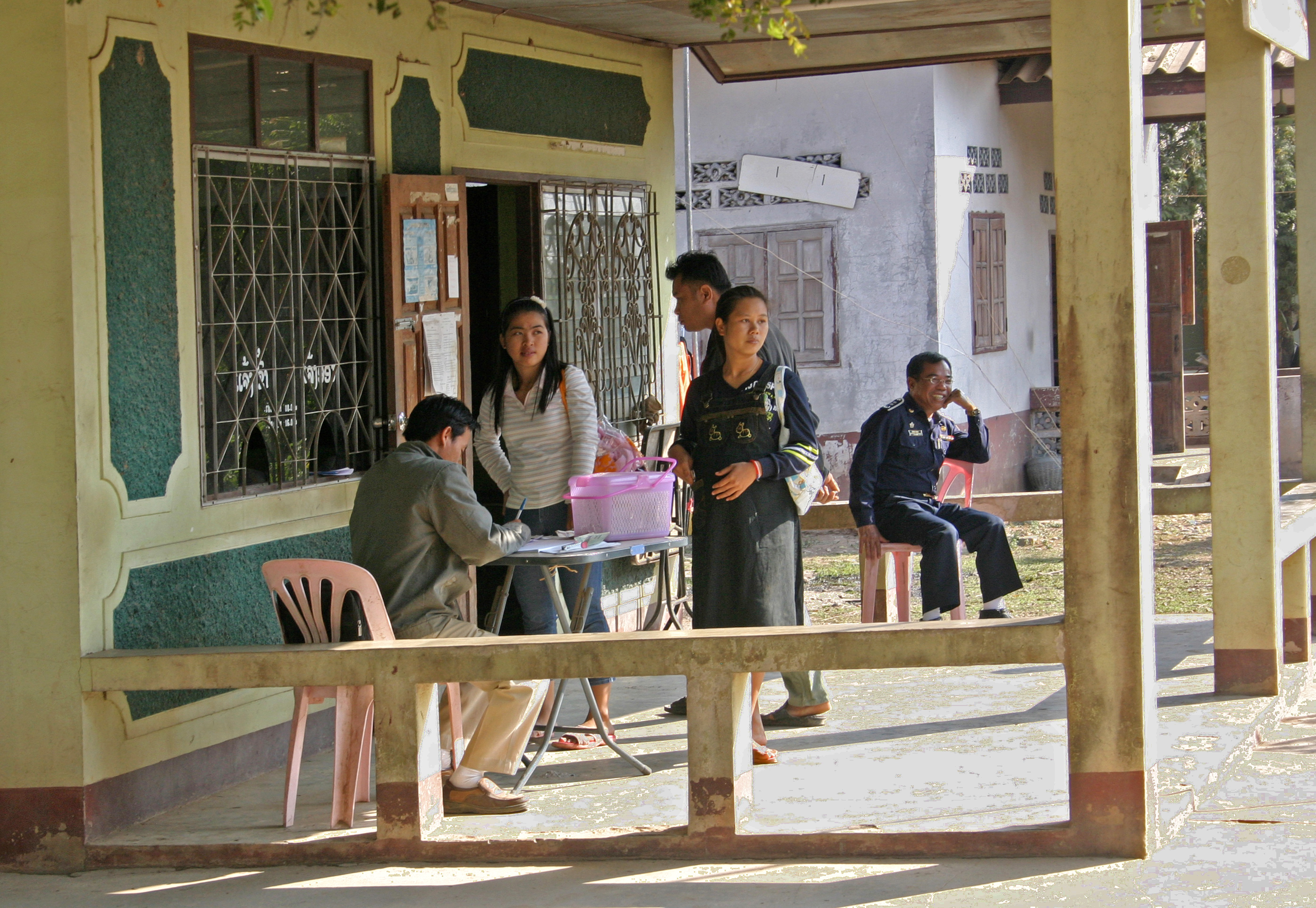 Place and boat station in the Lao province of Bokèo.